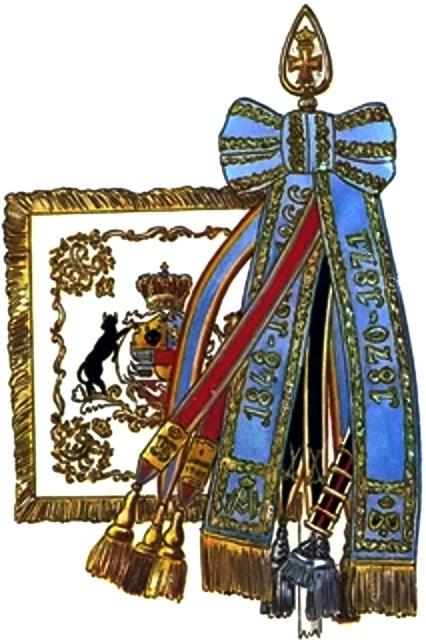 dragoons flag number 17